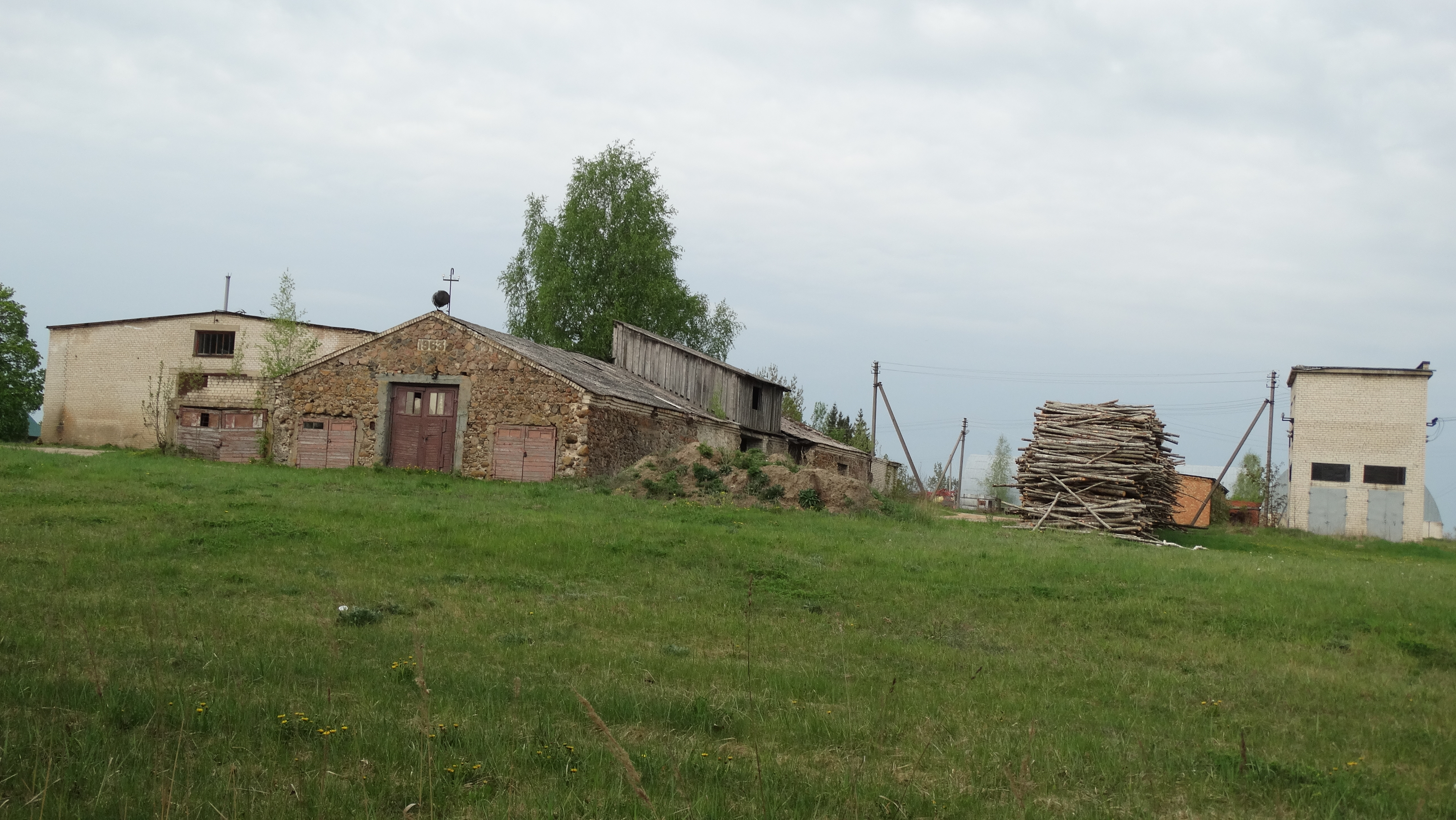 Padubysys, Pakruojis district, Lithuania